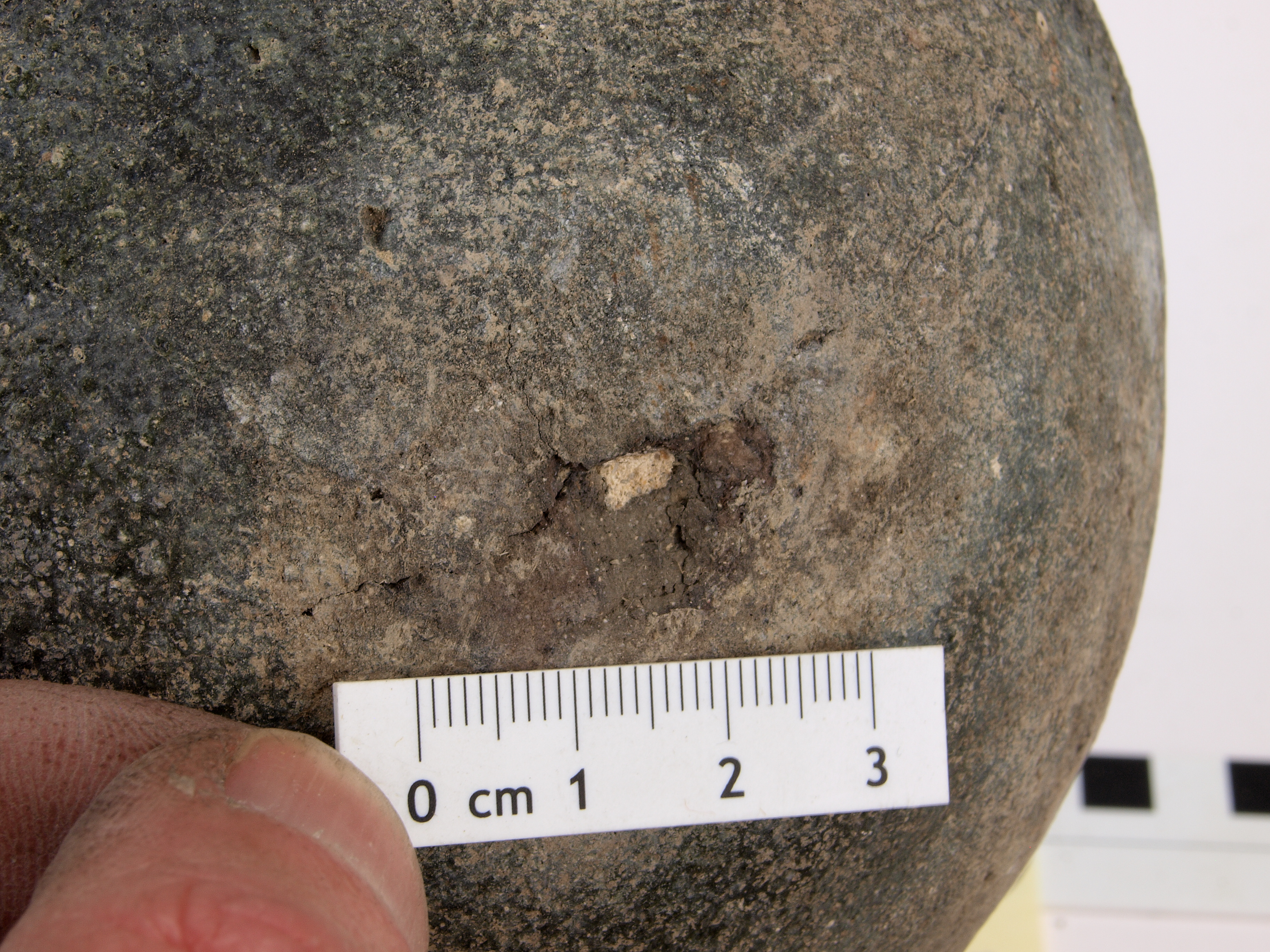 Lime enclosure in a ceramic vessel with a small bursting of the surface on the ceramic / pottery hand grenade Inv. No. 5037, City Museum of Ingolstadt, Bavaria, Germany. Dating ca. 16th/17th century A.D.